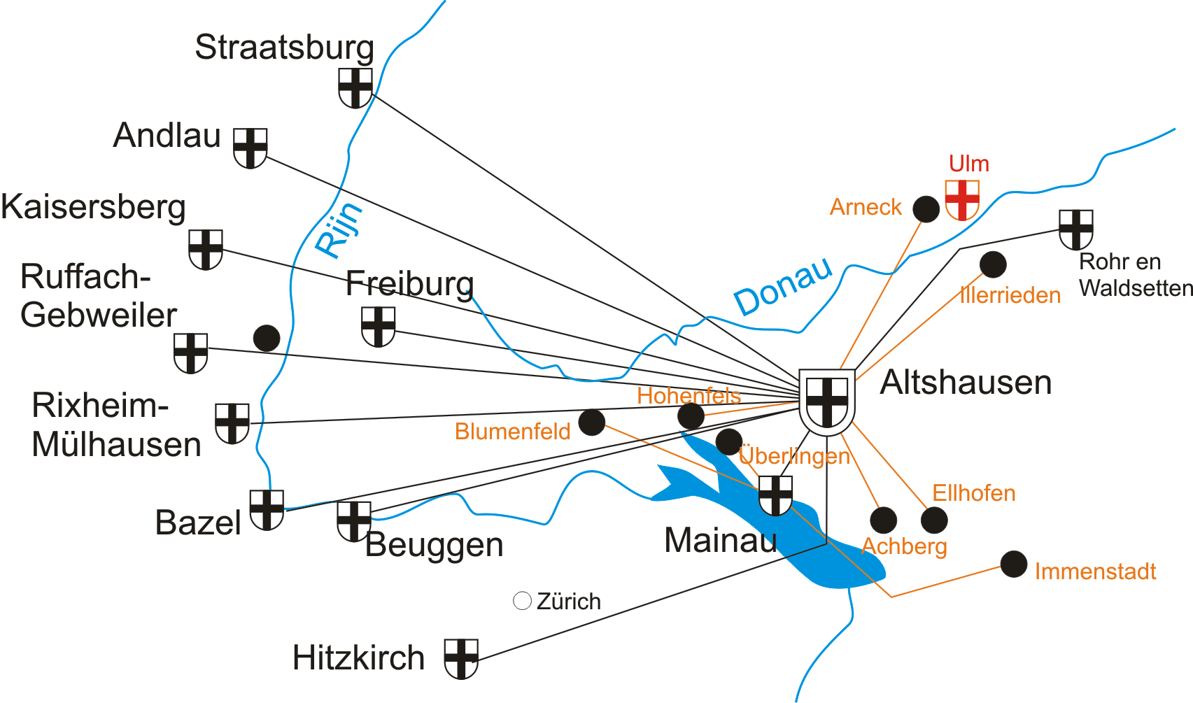 map of the bailiwick of Alsatia-Burgundy of the Teutonic Order (18th century)